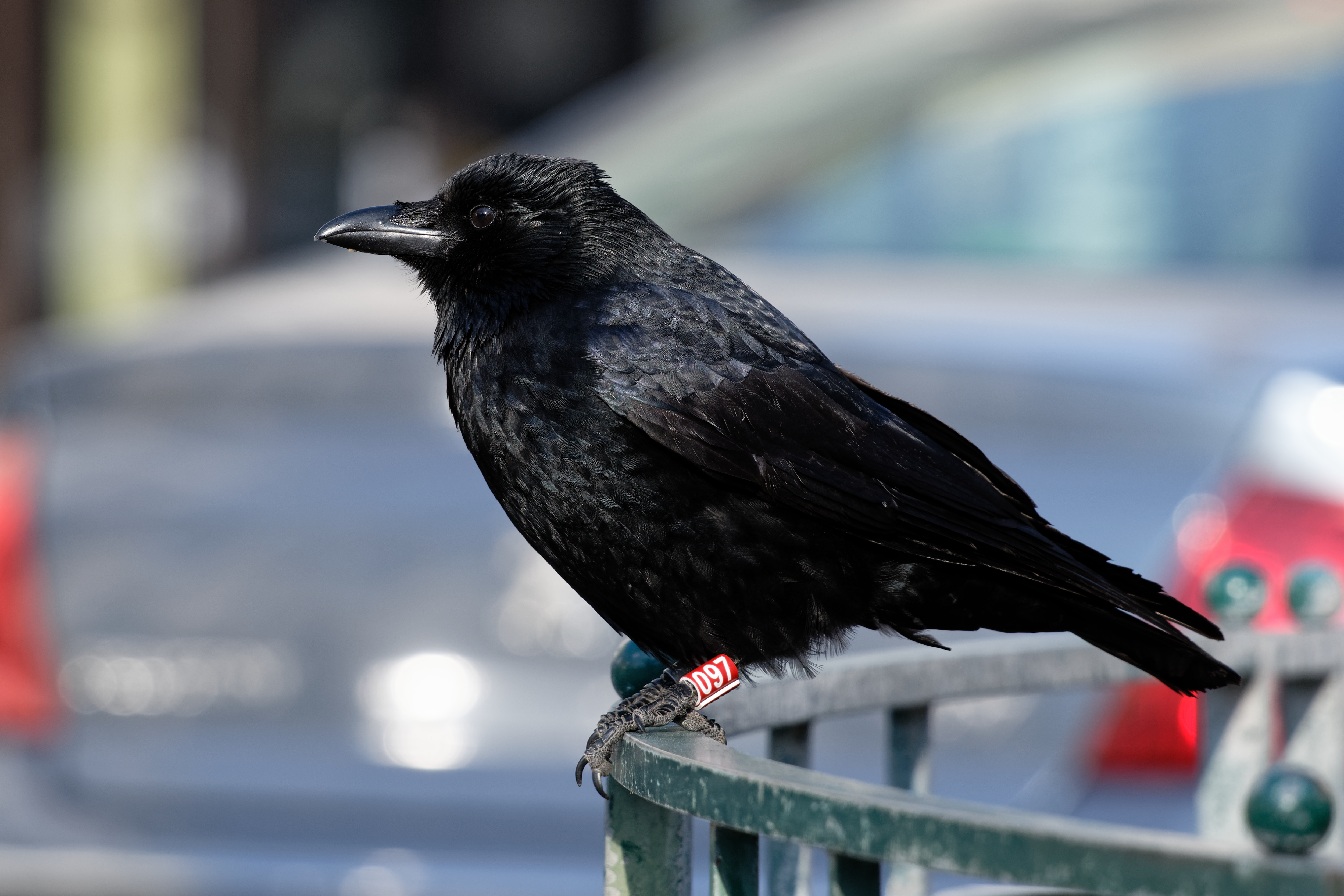 Ringed Carrion Crow (Corvus corone) R097 perched on a railway in Paris.